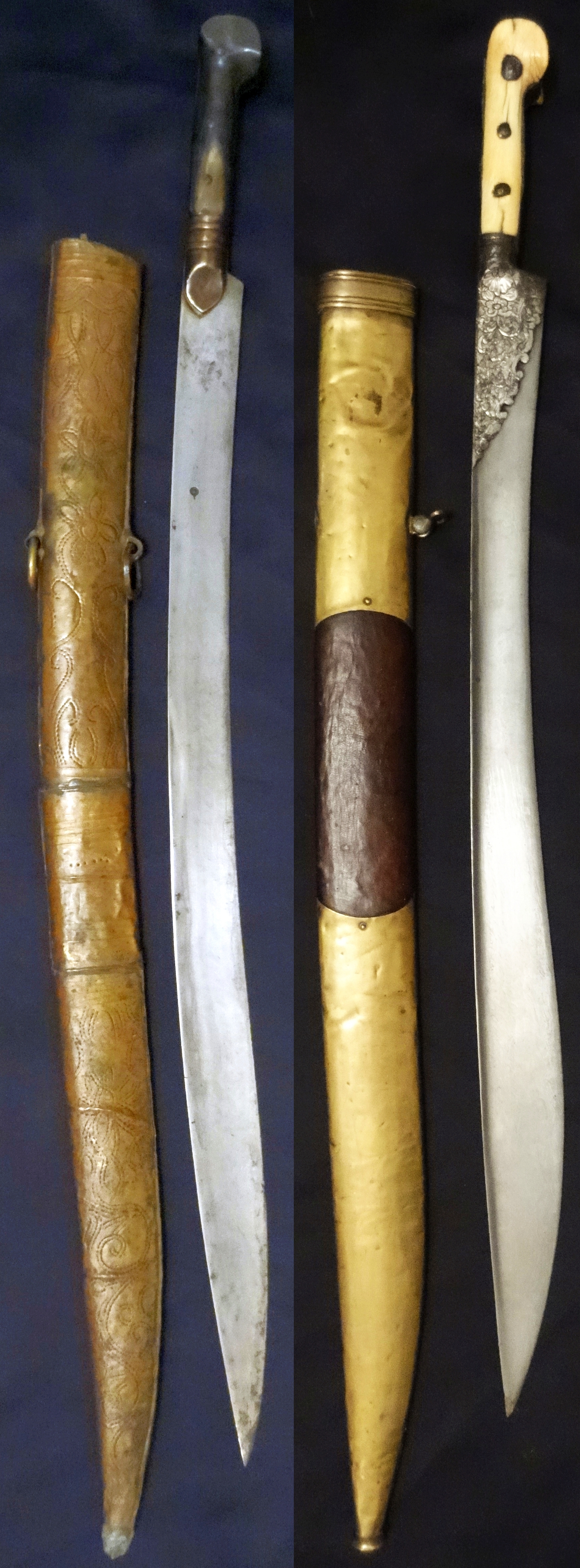 Two Ottoman yatahan/yataghan, 19th century.